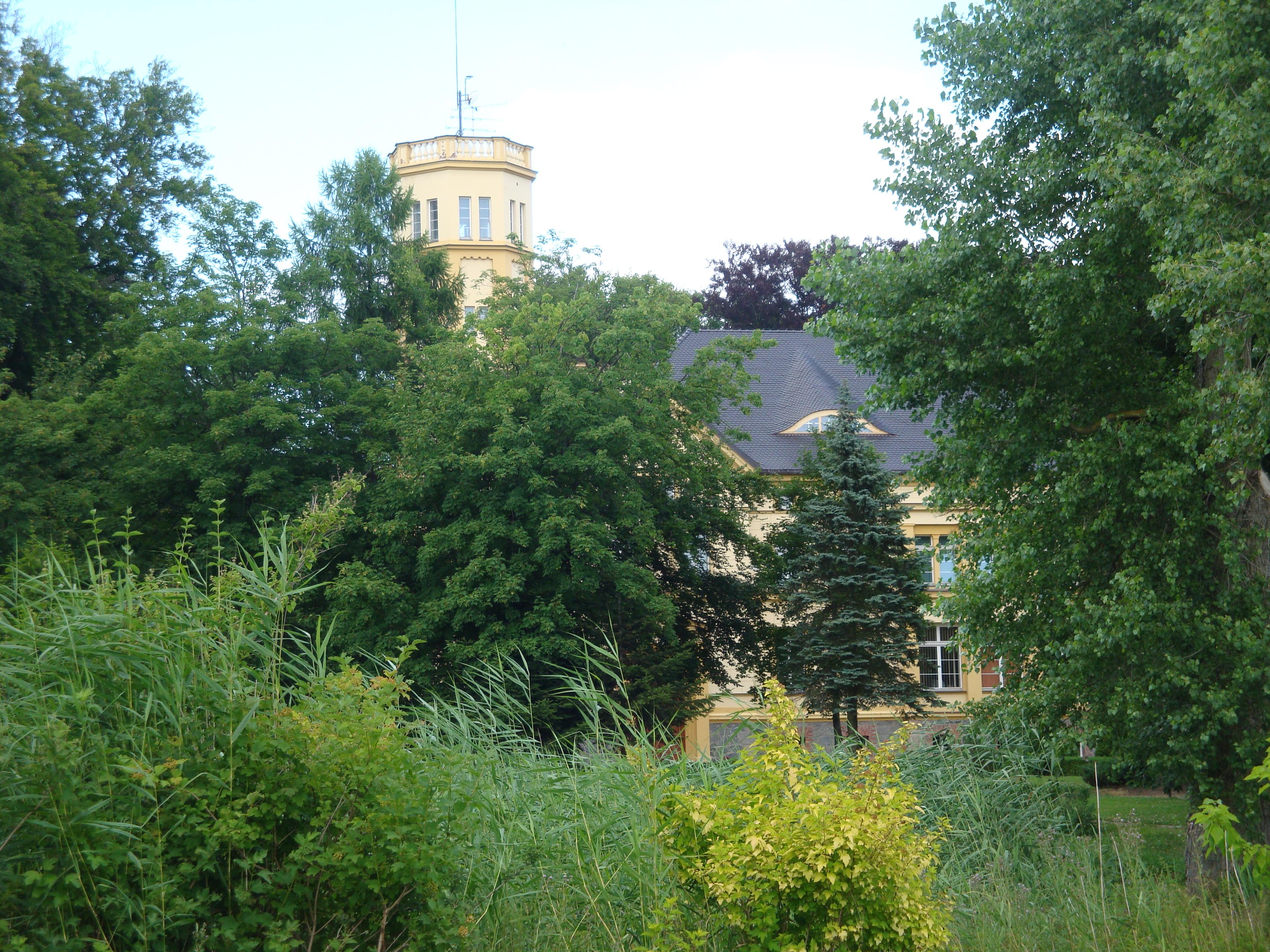 Bobrowniki-village in Pomeranian Voivodeship, Poland